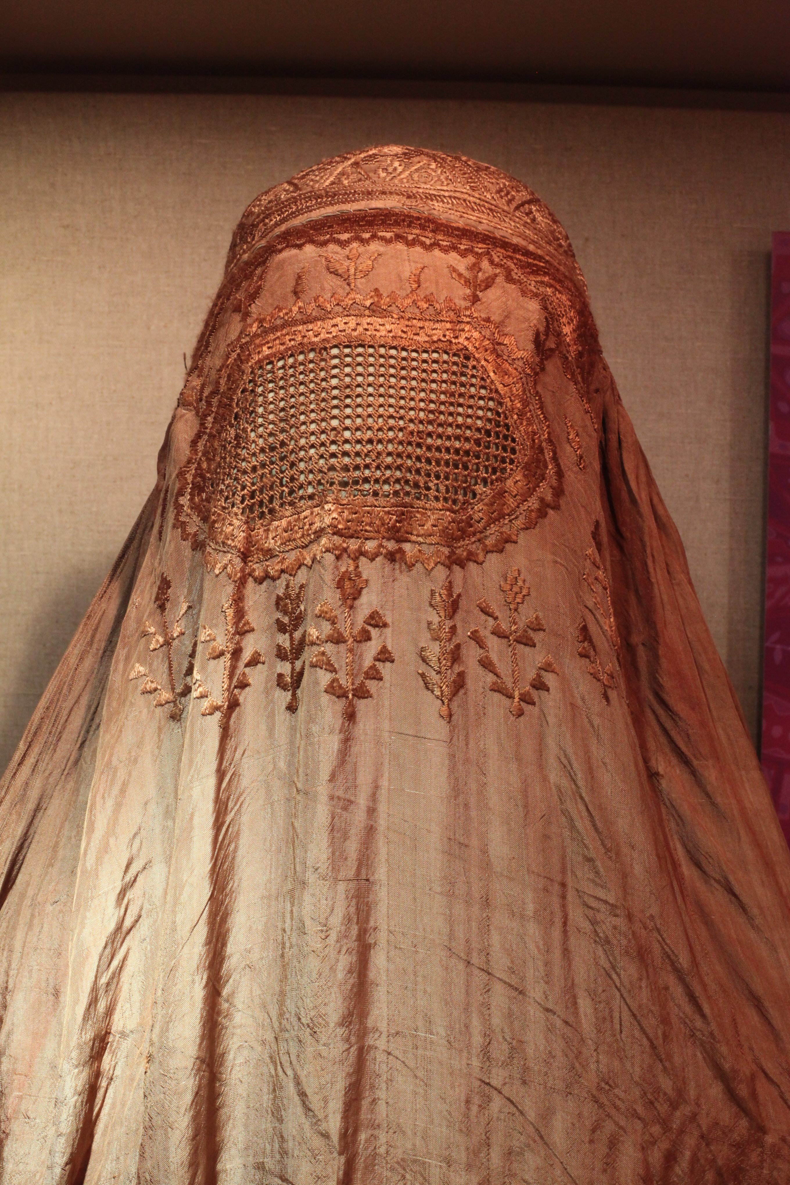 Silk burqa, 2oth century